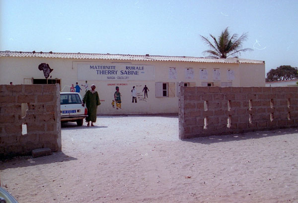 Maternity hospital - Gift of Thierry Sabine, the first organisator of the Rally Paris-Dakar.